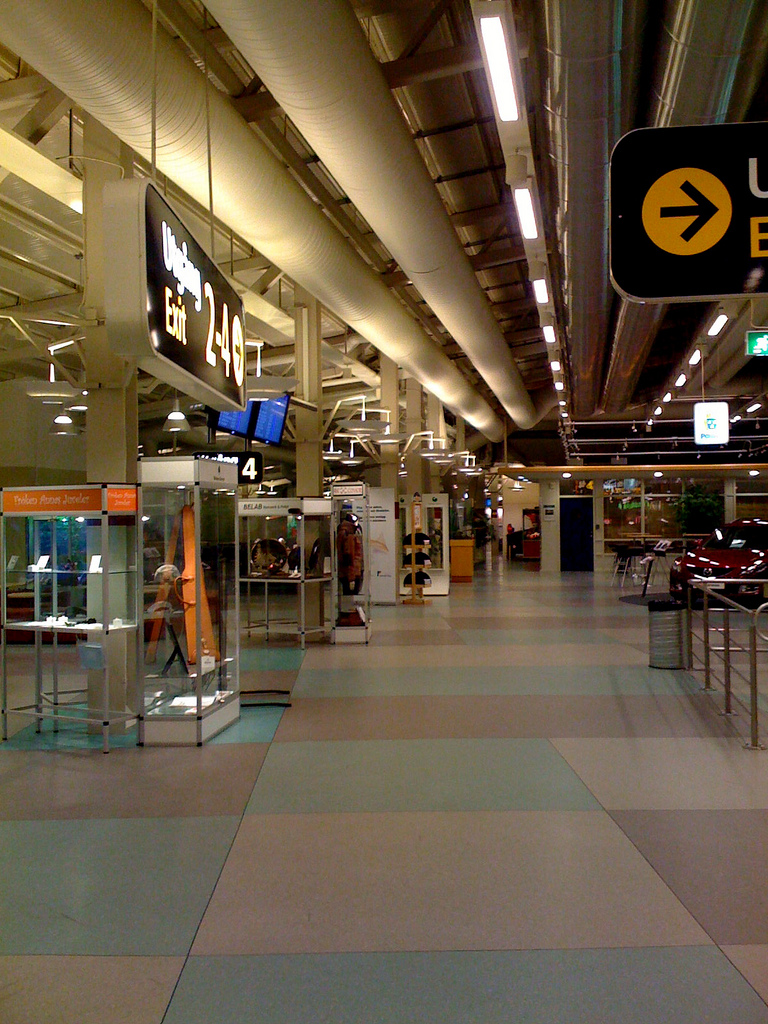 inside Luleå Airport